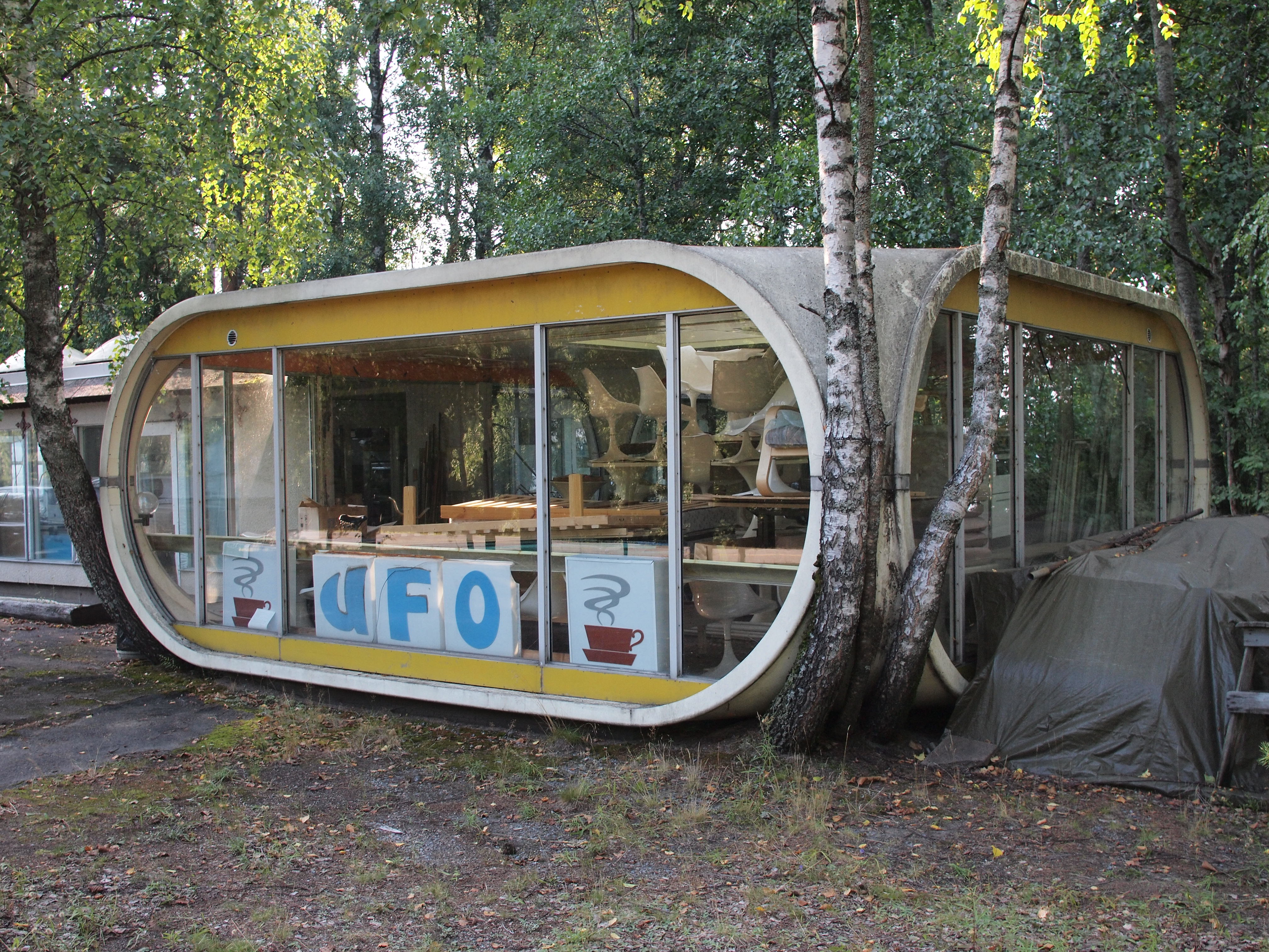 Polykem Venturo CF 45 by highway 6 near Luumäki in Finland. Design by Matti Suuronen.